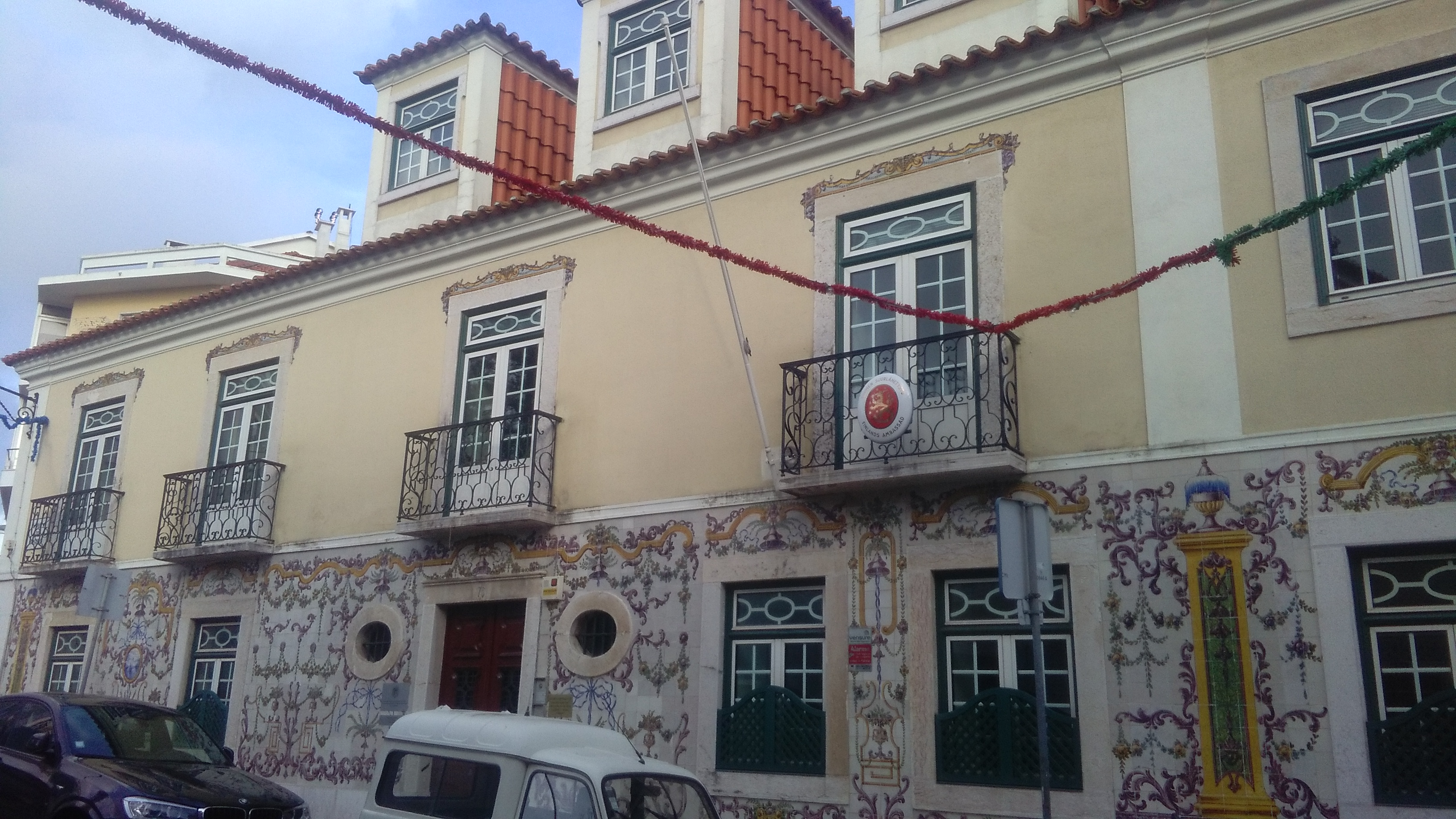 Facade of the palace that belonged to the Counts of Sabrosa. Built in the later half of the 18th century it was altered in 1918. The facade displays tile works (azulejos) by the Rato Worshops. The palace currently houses the embassies of the Republic of Finland and the Principality of Andorra in Lisbon, Portugal.